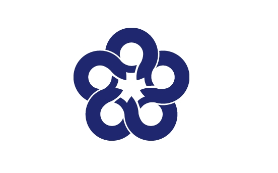 Flag of Dazaifu Fukuoka